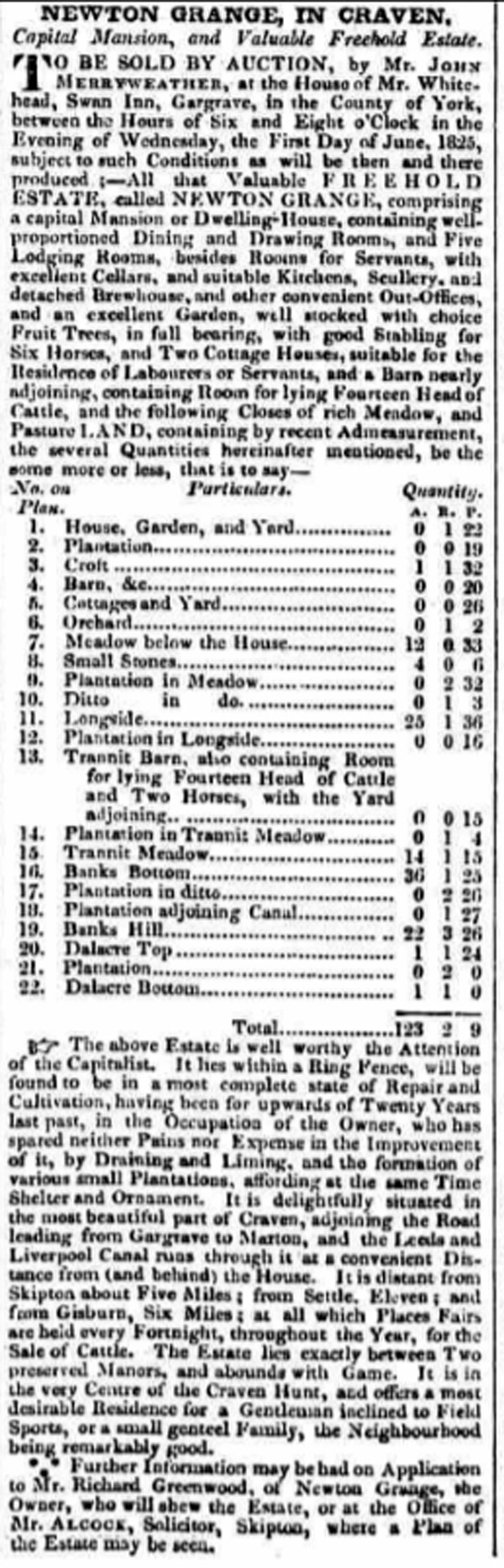 Advertisement for the sale of Newton Grange, Skipton, 1825